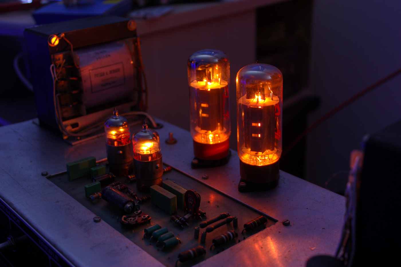 Solton BV60 tube bass amplifier